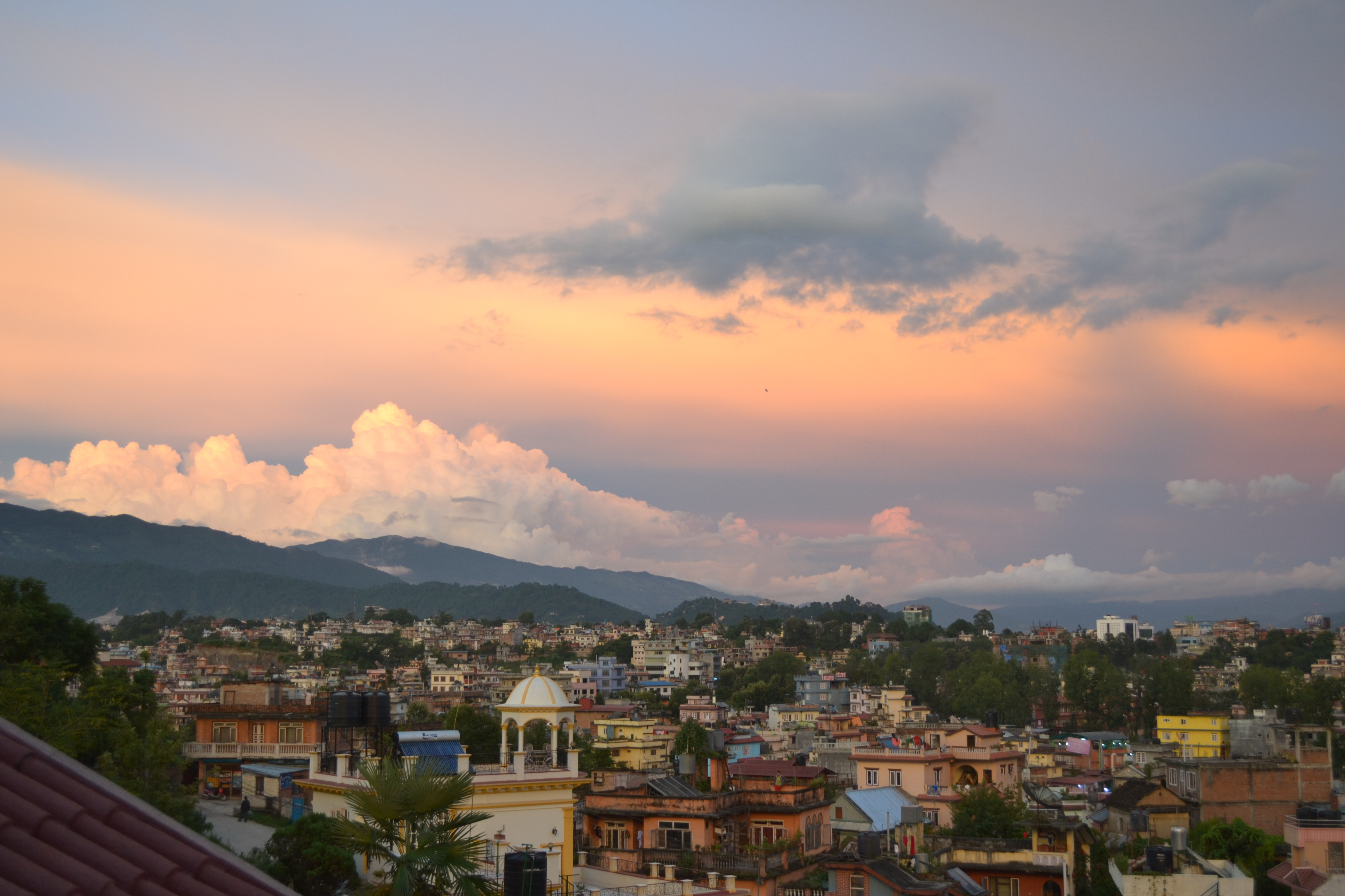 Kathmandu in the evening, view on the near mountains